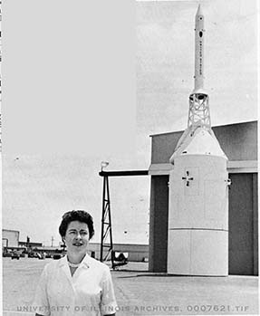 Barbara Crawford Johnson walks past Apollo spacecraft simulator en route to her office at North American Aviation in 1963, where she heads the department responsible for plotting the return course of the Apollo moon rocket.